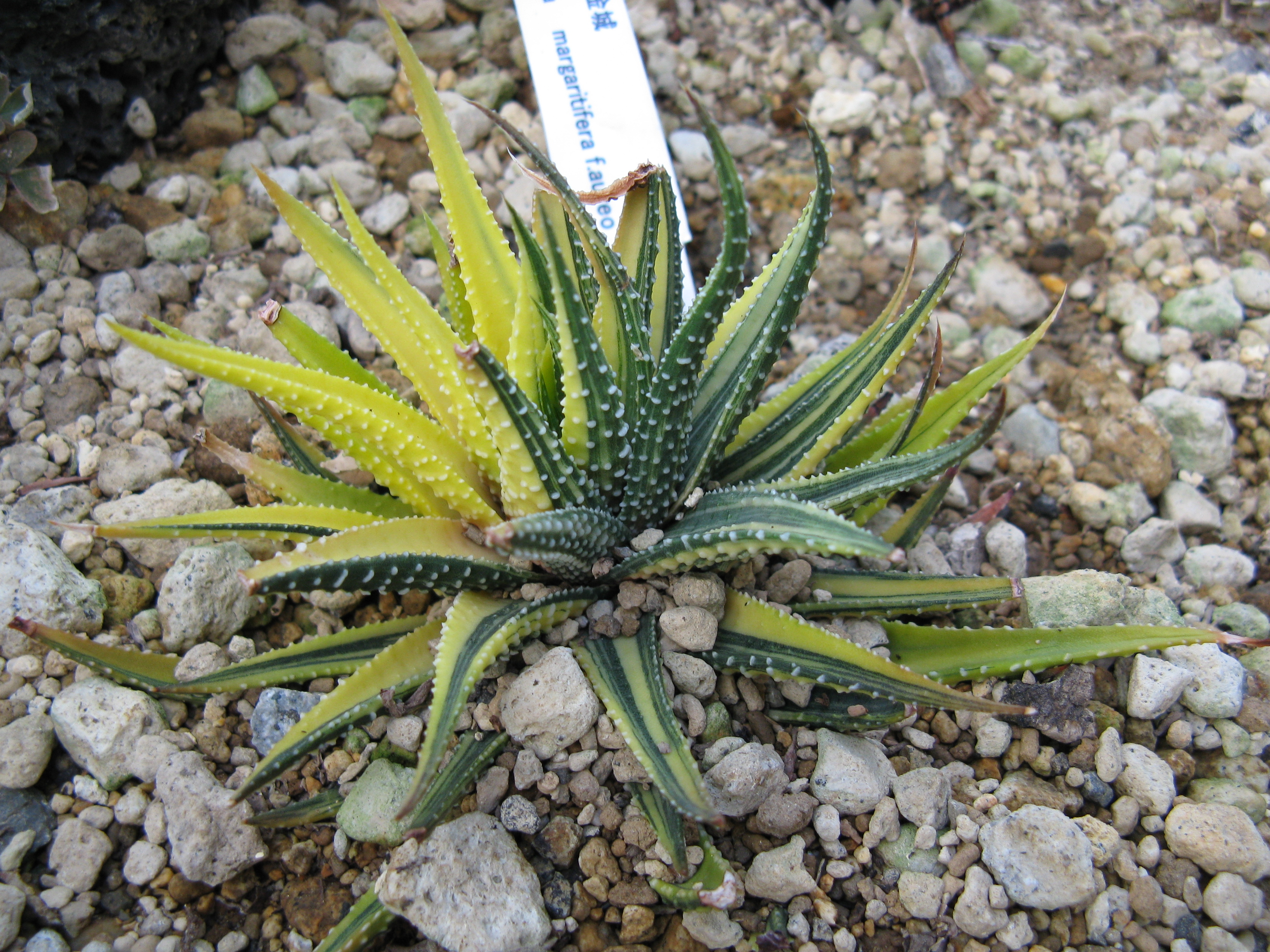 Haworthia margaritifera f. aureo. Haworthia margaritifera is a synonym of Haworthia pumila Place:Osaka Prefectural Flower Garden,Osaka,Japan